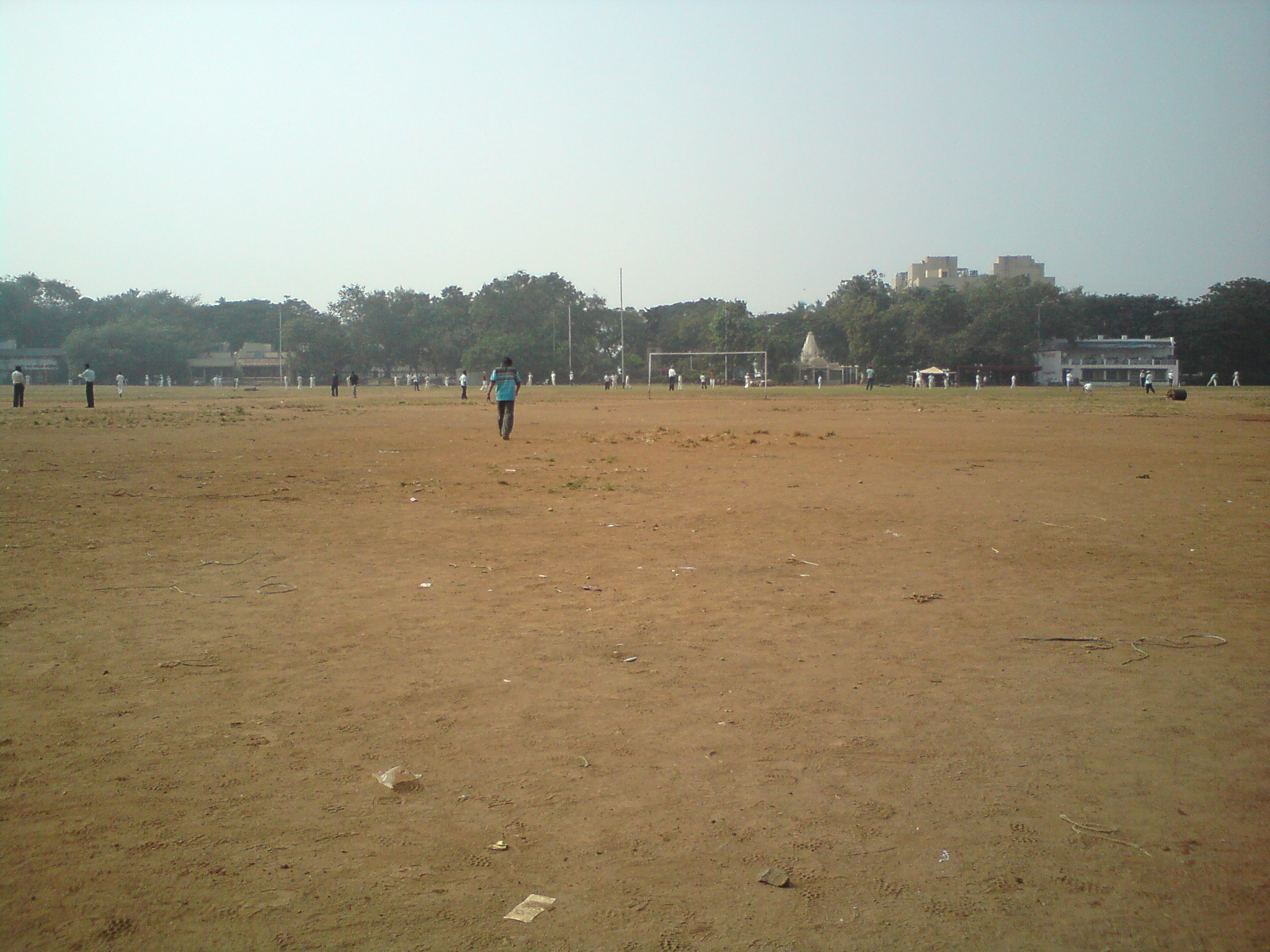 Shivaji Park Ground